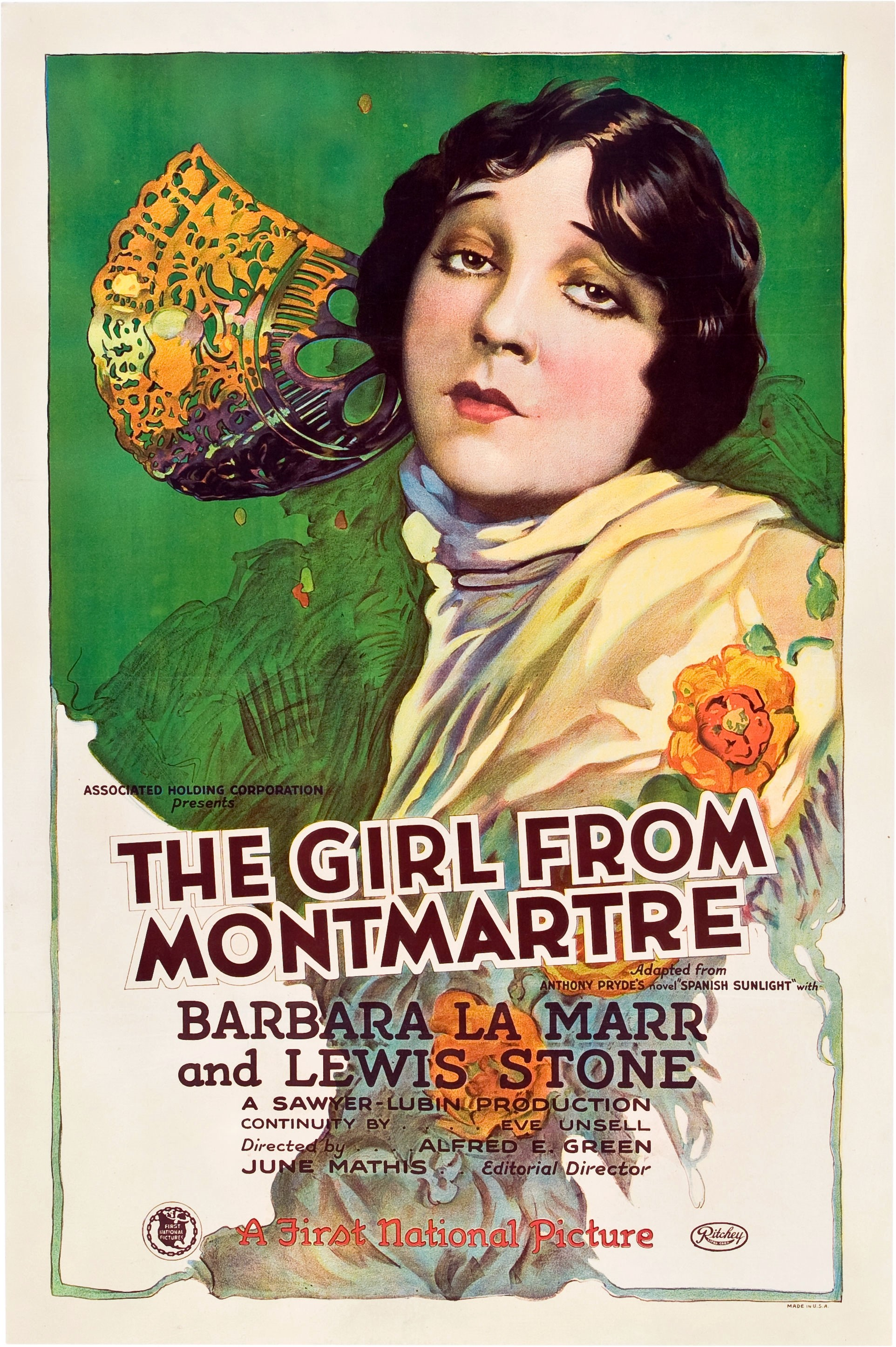 Poster for the 1926 film The Girl From Montmartre. There are no copyright marks. At bottom is a logo for the Ritchey litho company-they printed the poster. At bottom right is Made in USA.